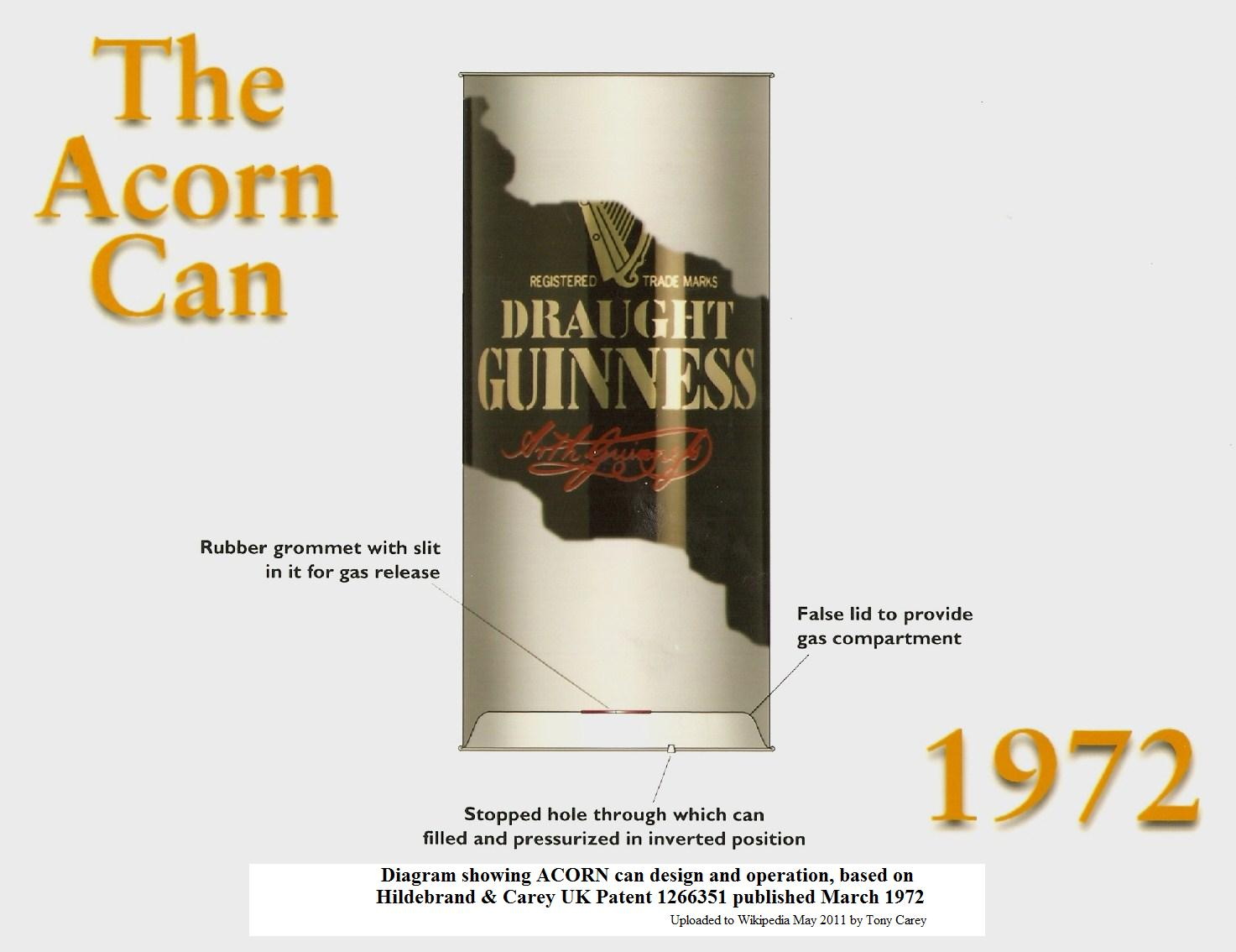 A diagram of the Guinness ACORN can showing structure and mode of operation